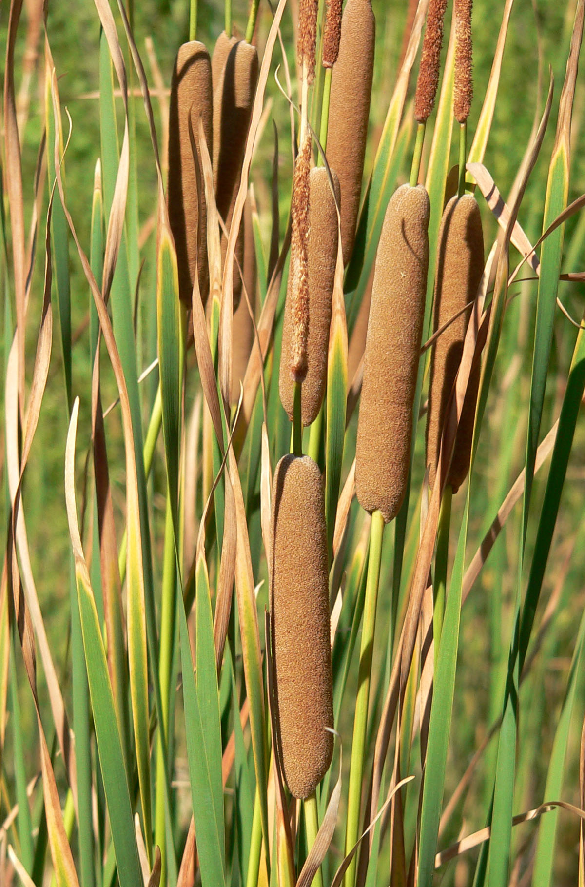 Typha domingensis in Pine Creek Canyon near the old homestead, Red Rock Canyon, Spring Mountains, southern Nevada (elev. about 1200 m)